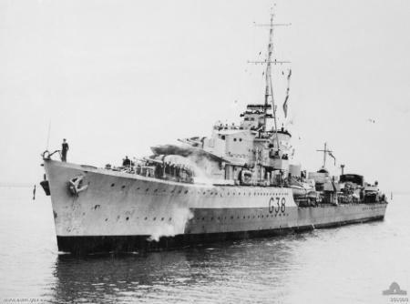 AWM Caption: Melbourne, Vic. October 1944. Port forward view of N class destroyer HMAS Nizam. During her RAN service Nizam visited Melbourne twice for refits at Williamstown Naval Dockyard.